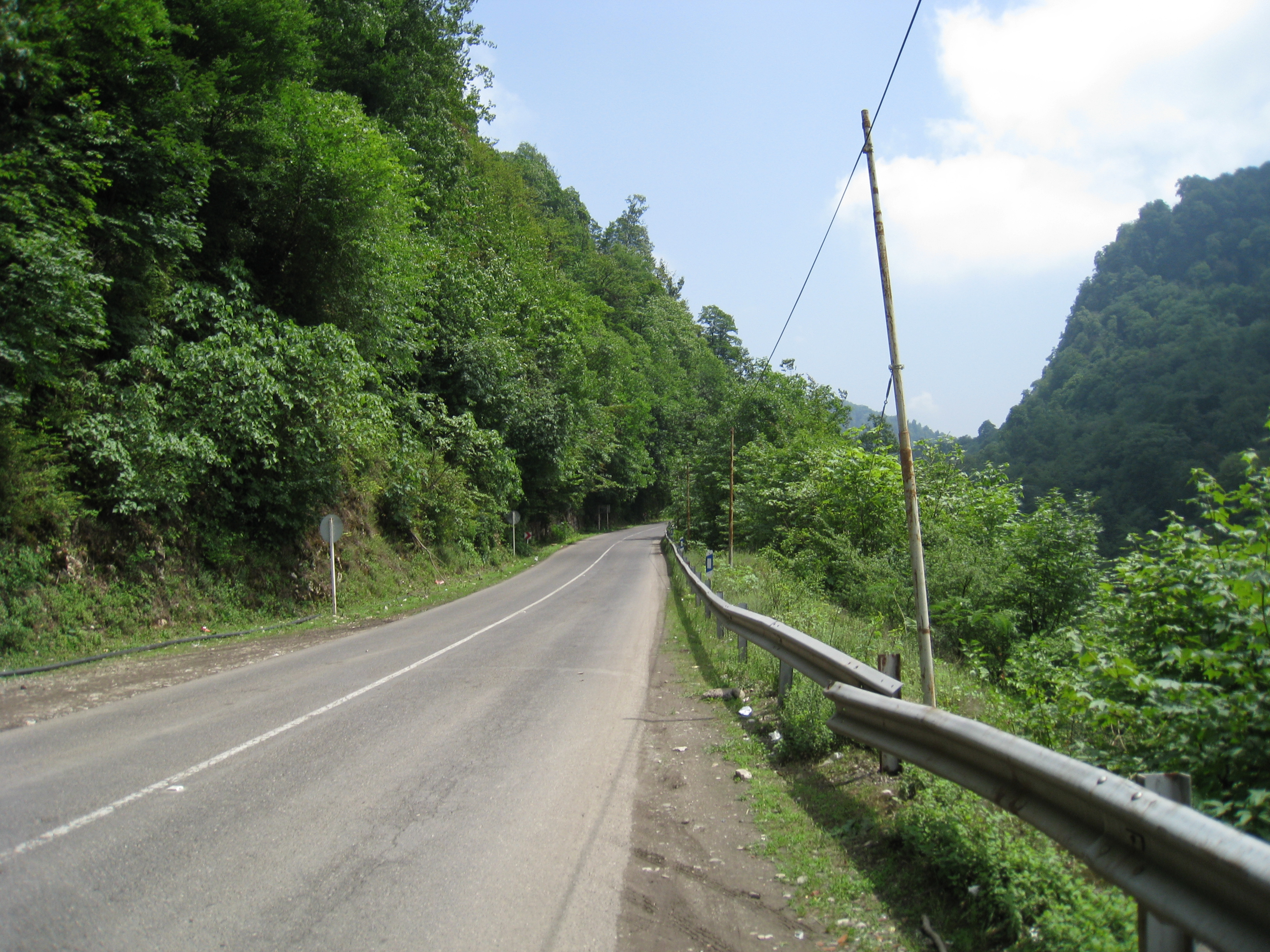 Kelardasht - AbbasAbad Road جاده کلاردشت- عباس‌آباد